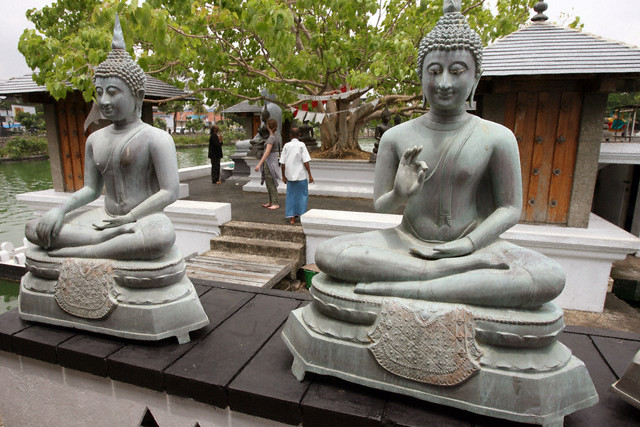 Created by me